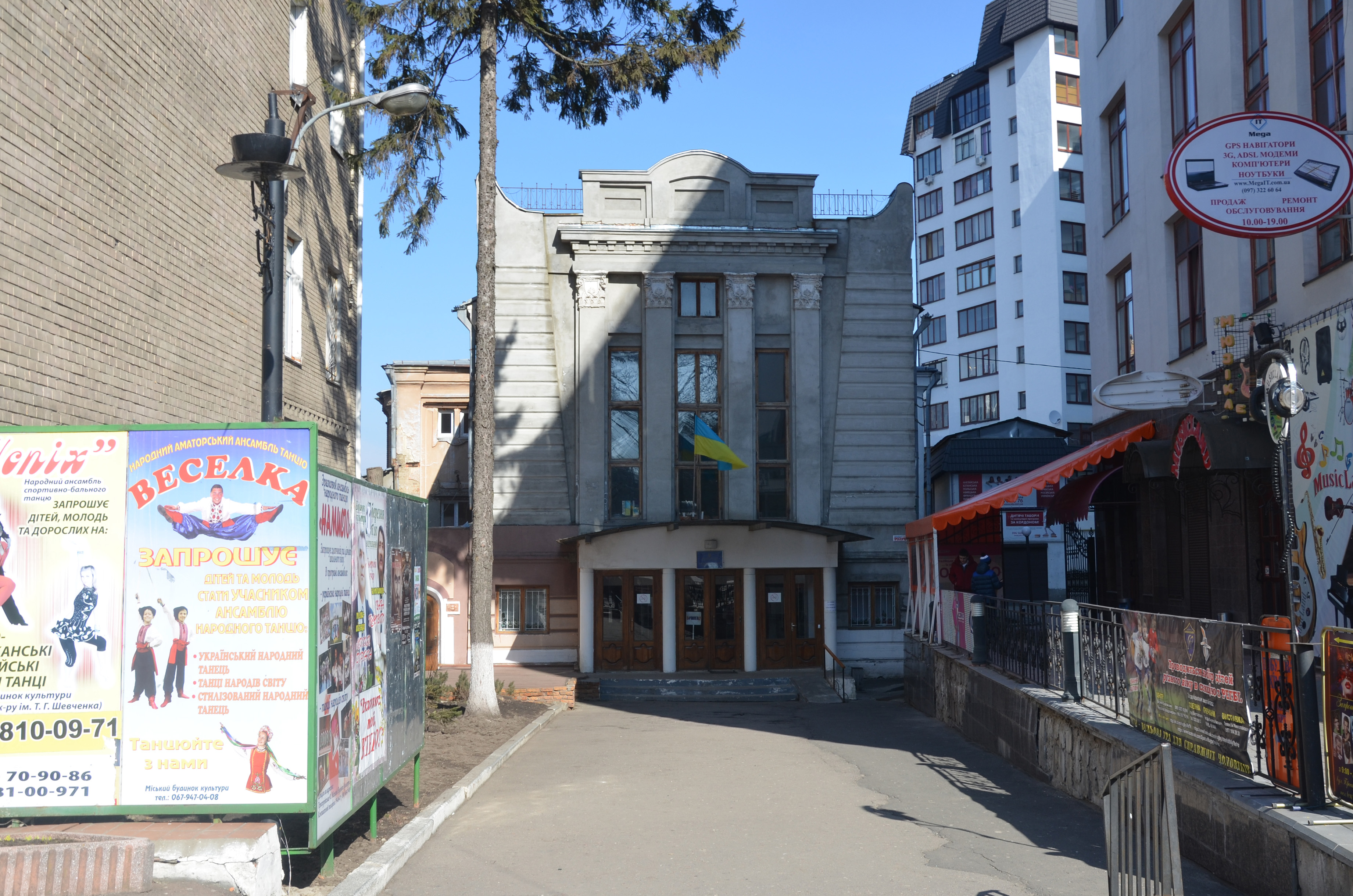 Будинок культури (вул.Проскурівська, 43), "ховається" у тіні сусідніх будинків